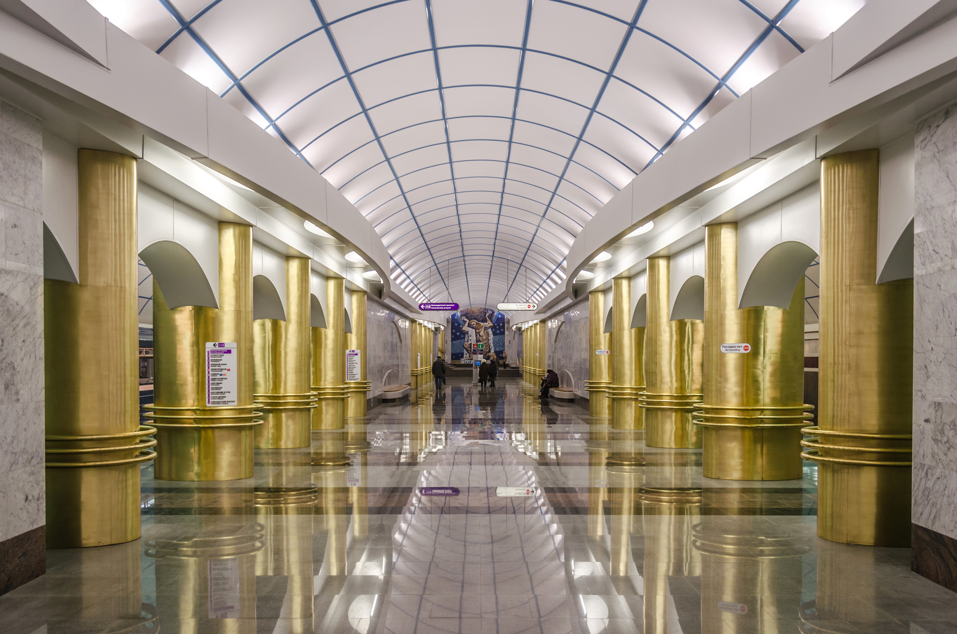 Mezhdunarodnaya subway station in Saint Petersburg